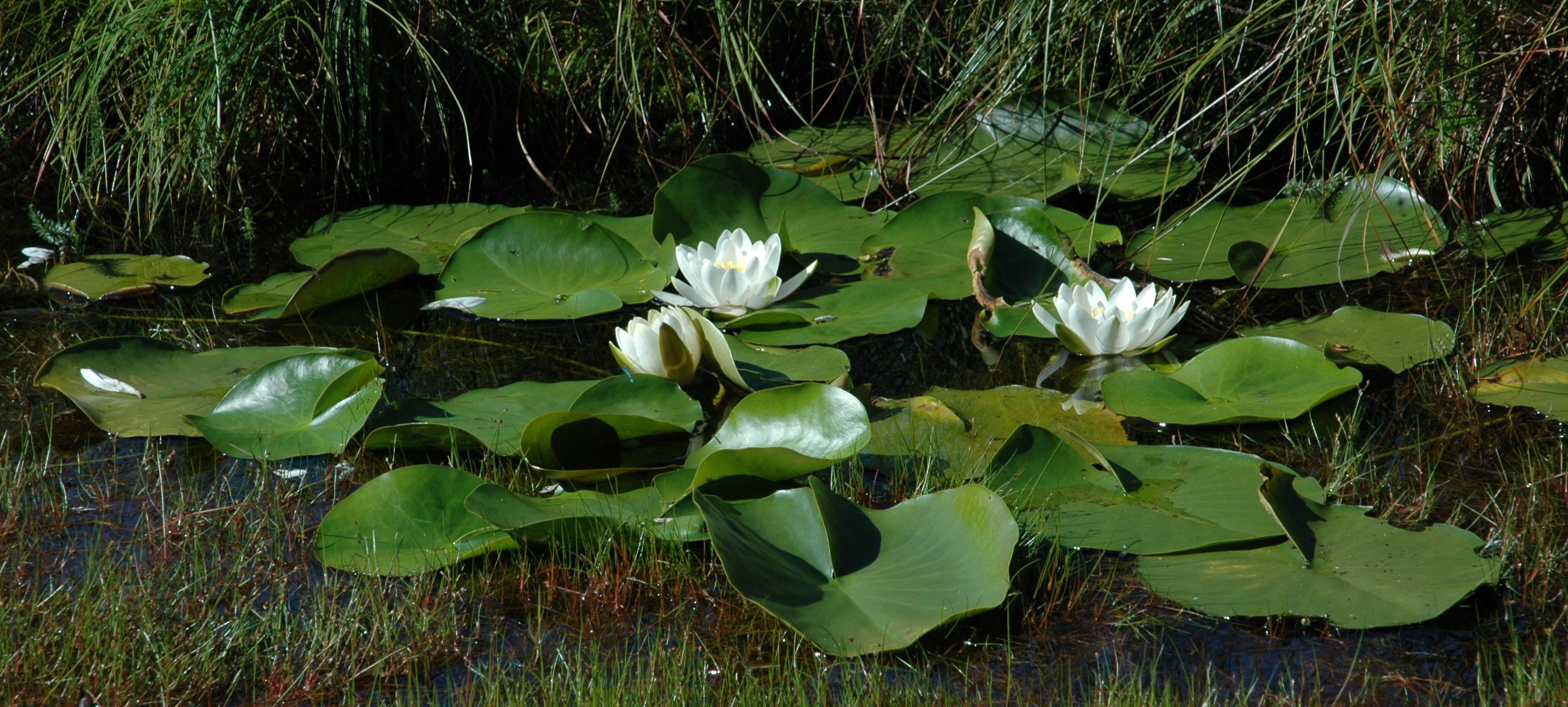 A group of Nymphaea alba (water lilies) in a pond in Flekkerøy, Norway. My own photograph, July 2006.